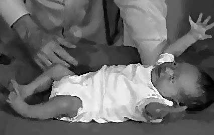 Moro reflex in a young infant.